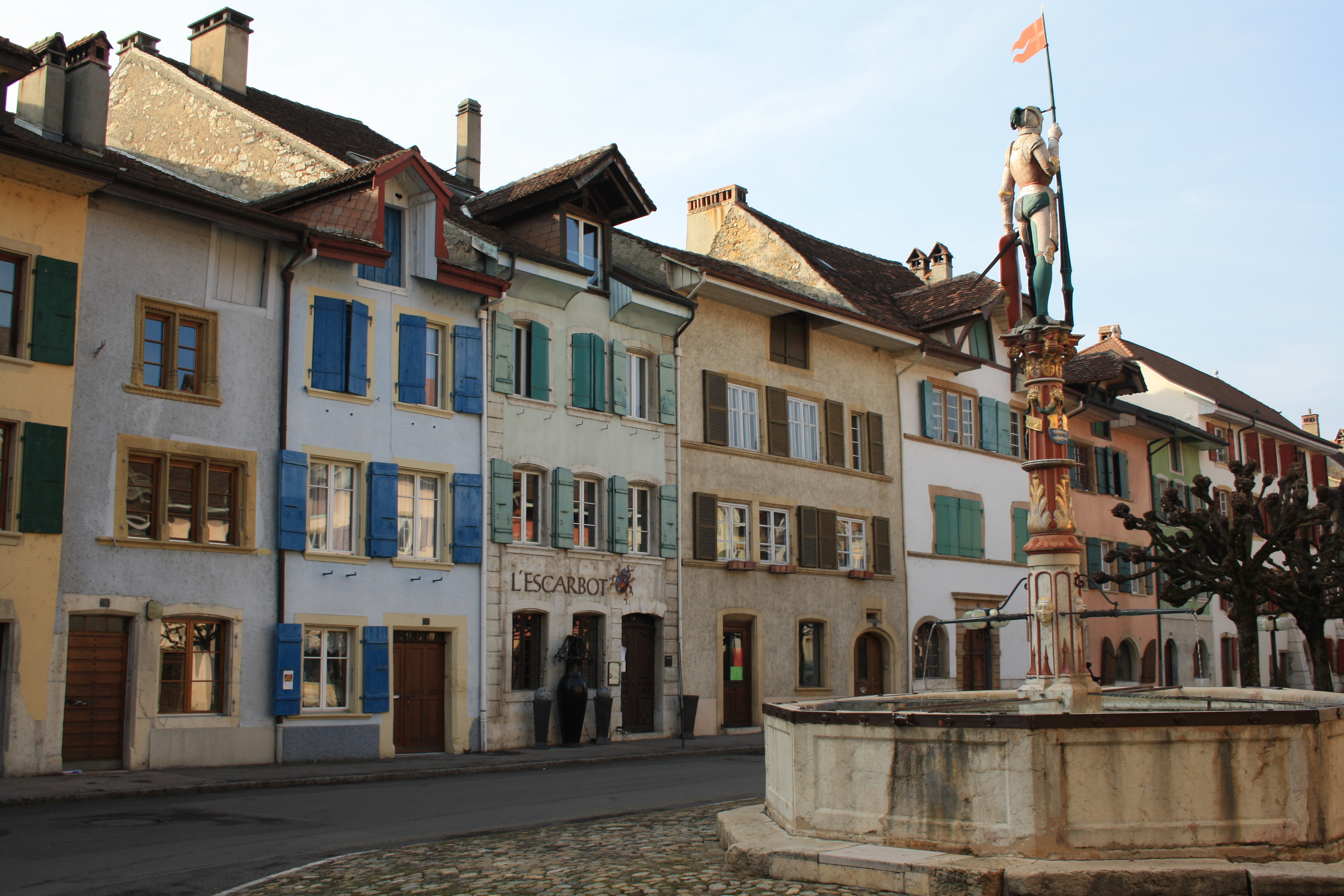 Le Landeron